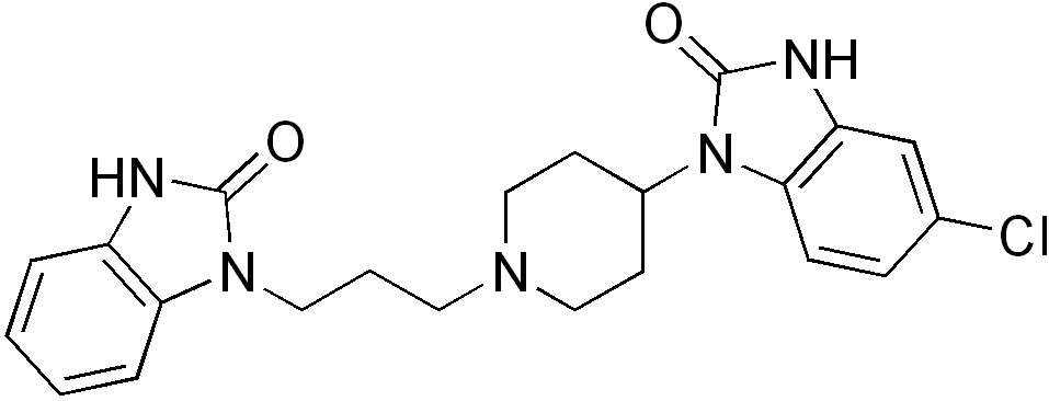 Chemical structure of domperidone.